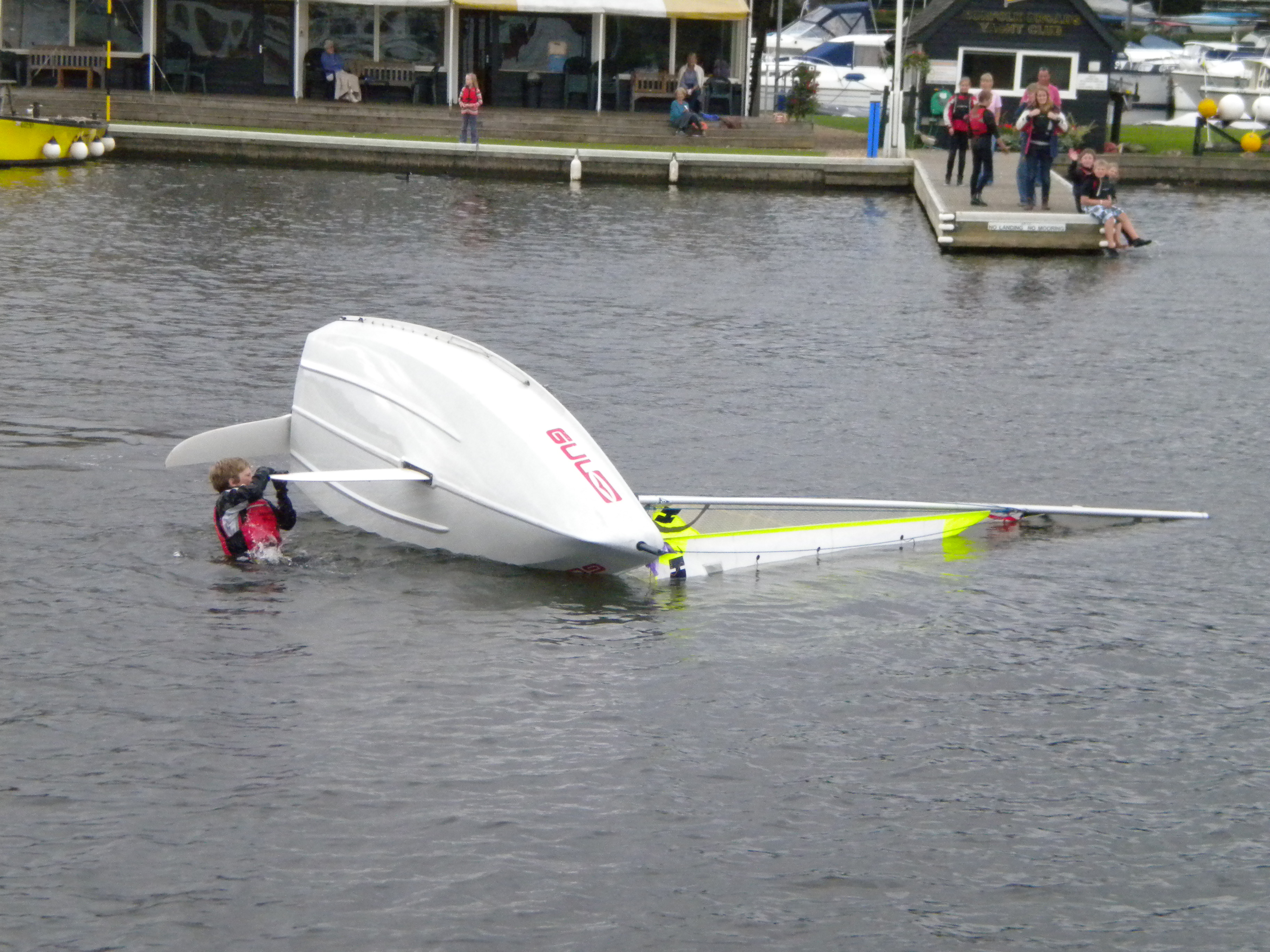 A youngster practising righting a dinghy on Wroxham Broad, Norfolk, England.